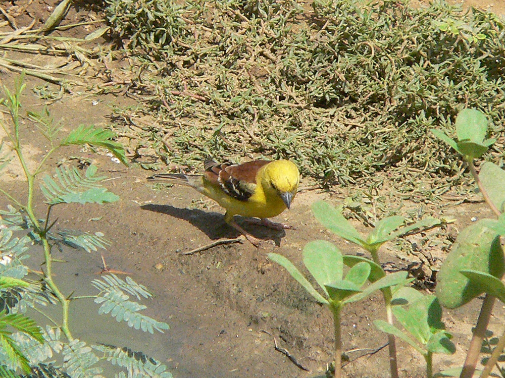 A male Sudan Golden Sparrow photographed near Aiterba, Red Sea State, Sudan